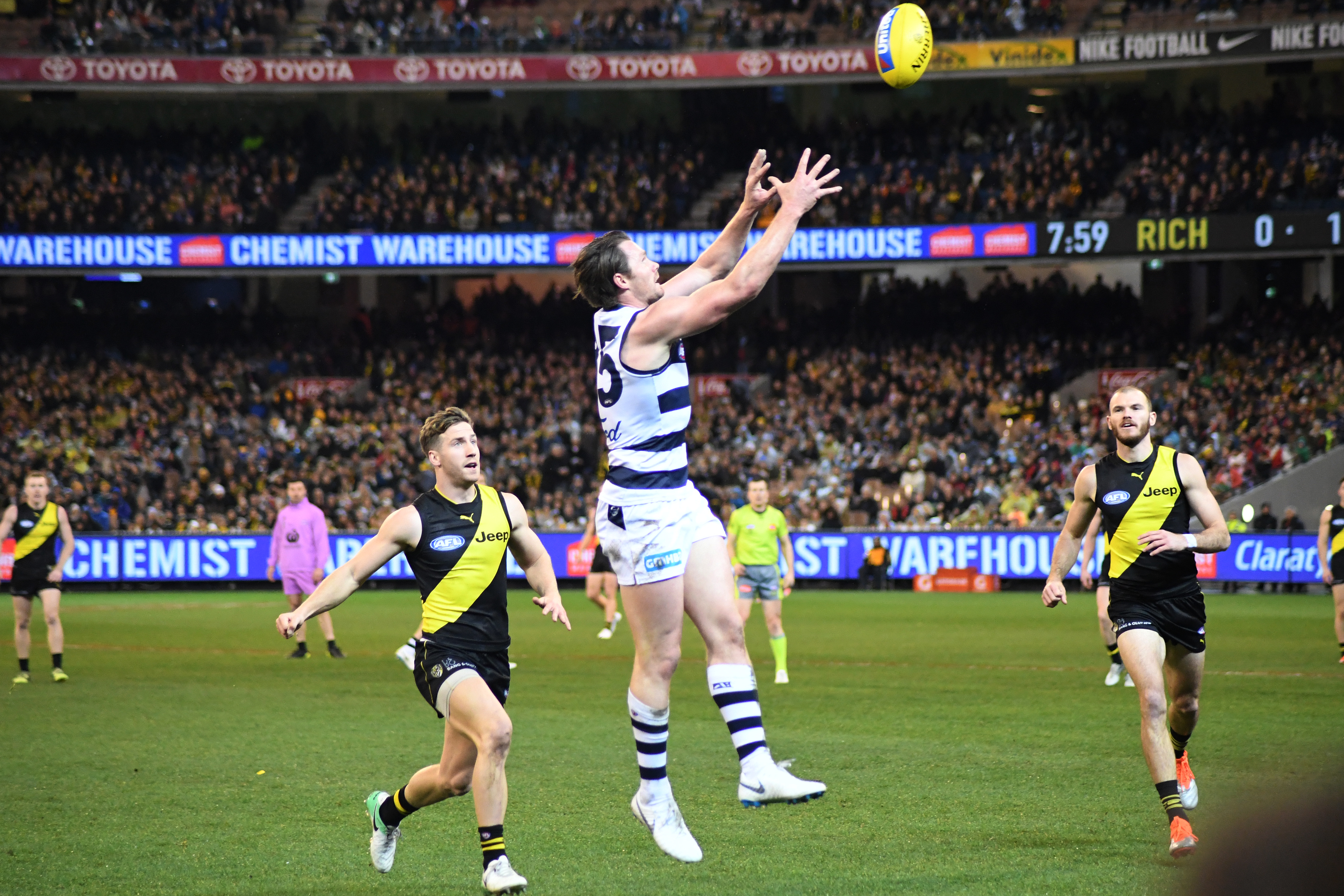 Patrick Dangerfield of Geelong marking during the 2018 AFL round 20 match between Richmond and Geelong at the Melbourne Cricket Ground on Friday, 3 August 2018 in Melbourne, Victoria.